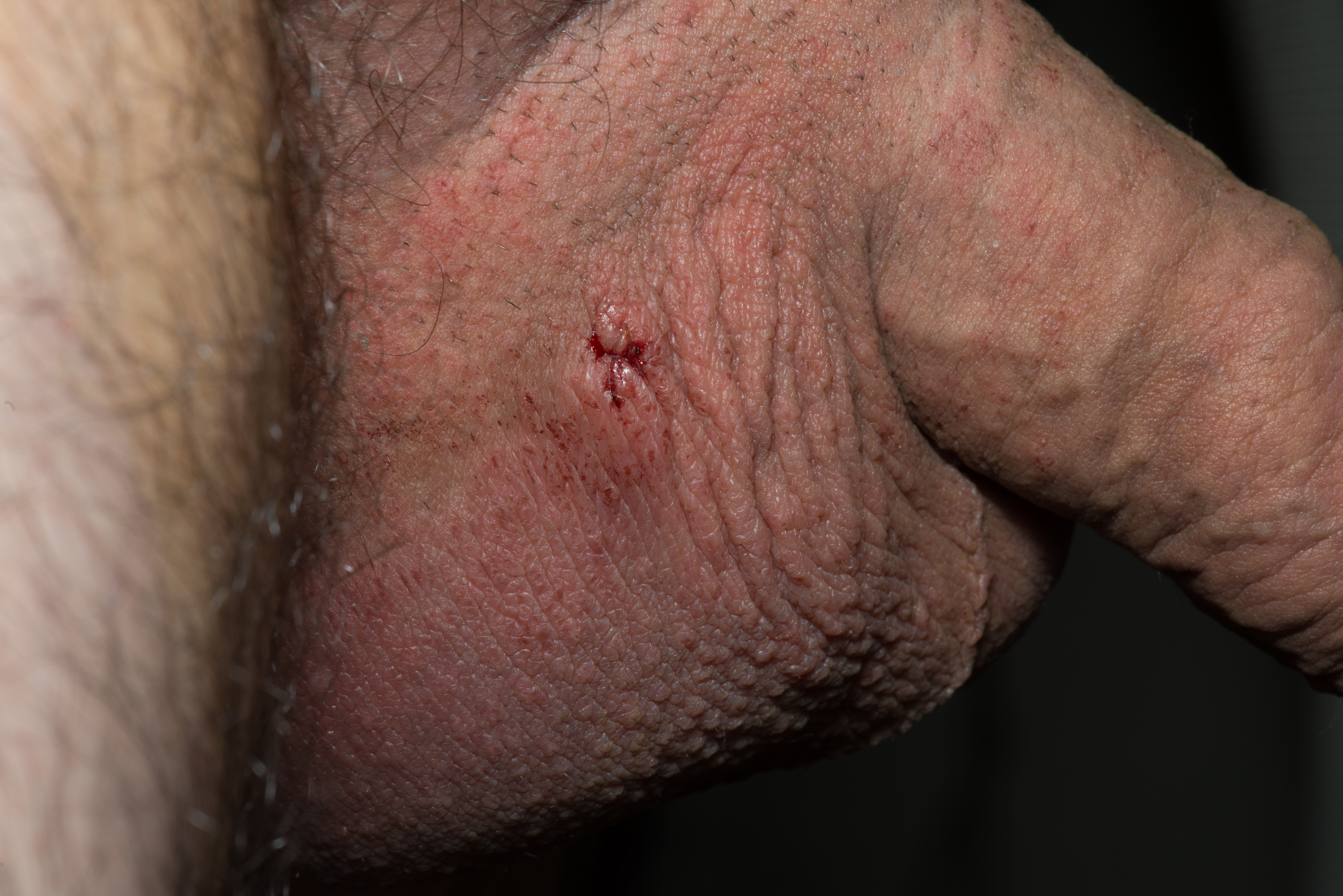 Close-up on right testicle, taken about 1-2 hours after vasectomy procedure completed. Incision with tied-off end of stitches is visible.